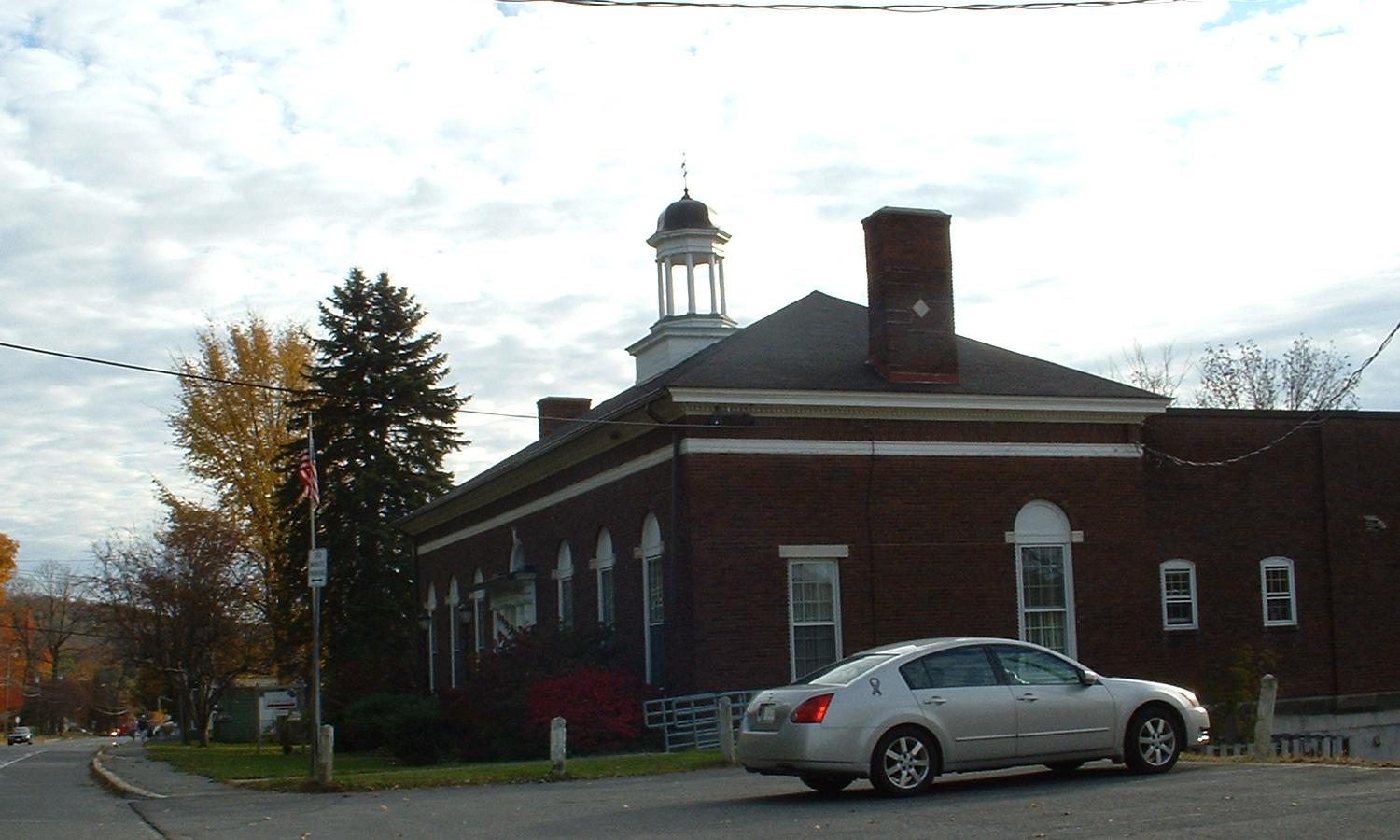 Lanesborough, Massachusetts Town Hall, located along U.S. Route 7.